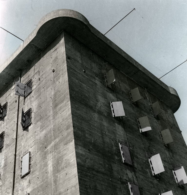 This is a retouched picture, which means that it has been digitally altered from its original version. Modifications: recolored. The original can be viewed here: Bundesarchiv Bild 183-1992-0513-502, Berlin, Flakturm.jpg: . Modifications made by Ruffneck88. Photographer PilzOriginal caption Berlin, Flakturm PK: Flakturm in einer Großstadt. Berlin Prop.-Kp. z.b.V. Film-Nr.: 998/8 Bildberichter Sdf. Pilz 16.4.42 ADN-Bildarchiv: II. Weltkrieg 1939-45. Zur Bekämpfung der alliierten Bomberverbände wurden wie in anderen Großstädten auch in Berlin Flaktürme errichtet; Foto wahrscheinlich vom Zoo.Depicted place BerlinDate Taken on 16 April 1942Collection German Federal Archives Native nameDas BundesarchivParent institutionFederal Government Commissioner for Culture and Media LocationKoblenz (headquarters)Coordinates50° 20′ 32.71″ N, 7° 34′ 21.22″ E Established1946 Web page control : Q685753 VIAF: 137346469 ISNI: 0000 0004 0555 2728 LCCN: n92025526 NLA: 36455393 Open Library: OL55798A WorldCat institution QS:P195,Q685753Current location Allgemeiner Deutscher Nachrichtendienst - Zentralbild (Bild 183)Accession number Bild 183-1992-0513-502 Source This image was provided to Wikimedia Commons by the German Federal Archive (Deutsches Bundesarchiv) as part of a cooperation project. The German Federal Archive guarantees an authentic representation only using the originals (negative and/or positive), resp. the digitalization of the originals as provided by the Digital Image Archive. Berlin, Flakturm PK: Flakturm in einer Großstadt. Berlin Prop.-Kp. z.b.V. Film-Nr.: 998/8 Bildberichter Sdf. Pilz 16.4.42 ADN-Bildarchiv: II. Weltkrieg 1939-45. Zur Bekämpfung der alliierten Bomberverbände wurden wie in anderen Großstädten auch in Berlin Flaktürme errichtet; Foto wahrscheinlich vom Zoo.